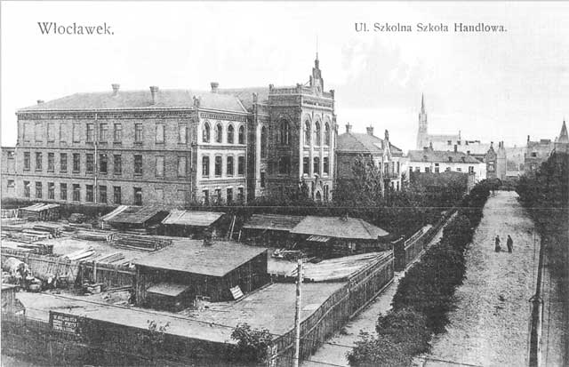 View for Szkolna street (nowadays: Mickiewicz street) and building of Trade School - nowadays High School of Kuyavian Land in Włocławek. Photograph by Bolesław Sztejner (1861-1921), made beetwen 1902 and 1913 year.